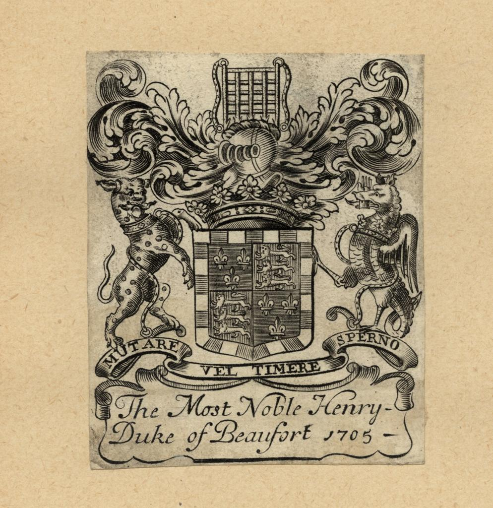 Armorial/Heraldic Bookplates. Subject: Coat of arms; Shields; Armor; Animals. Subject - Personal Name: Duke of Beaufort.